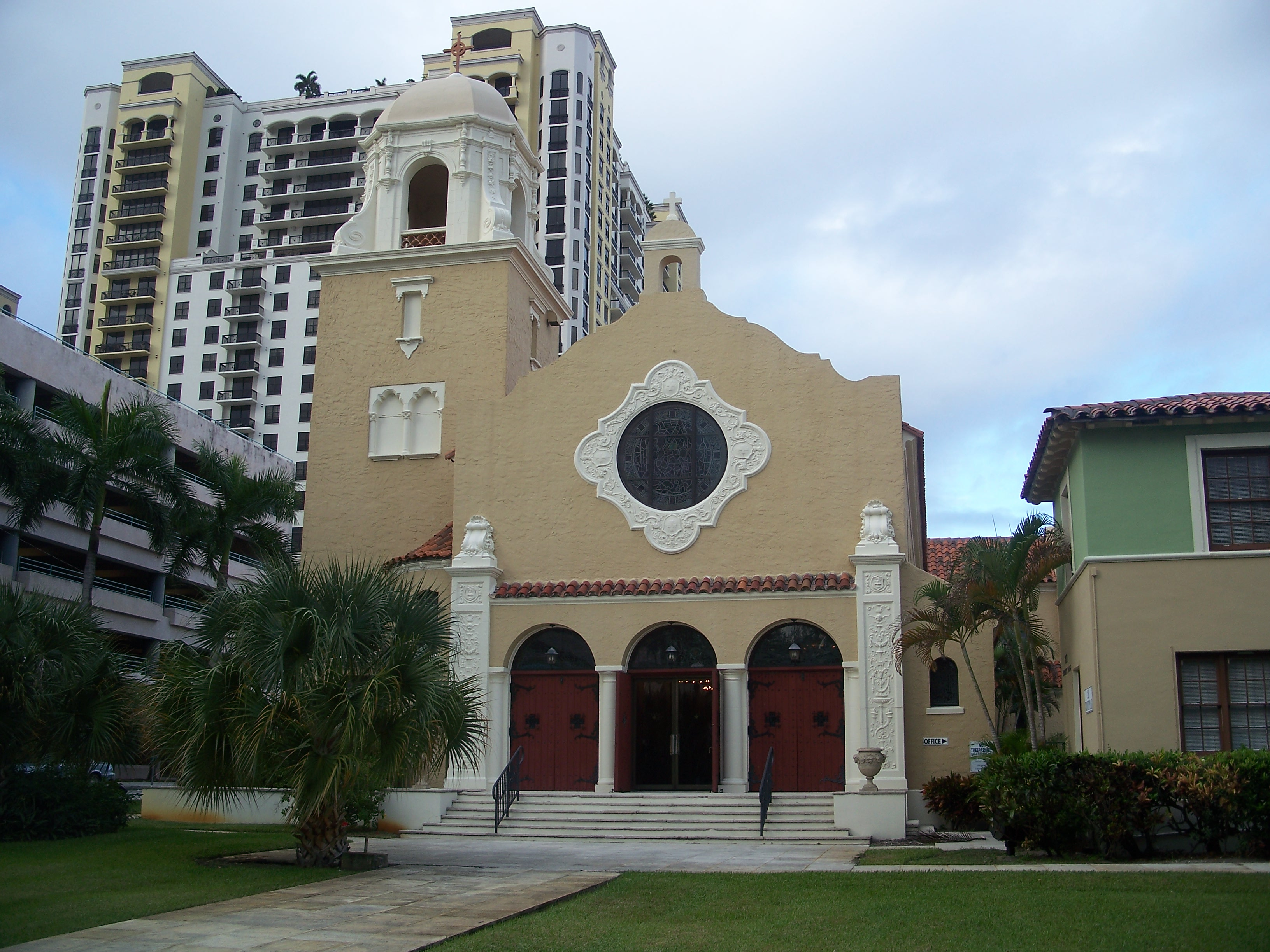 West Palm Beach, Florida: Holy Trinity Episcopal Church